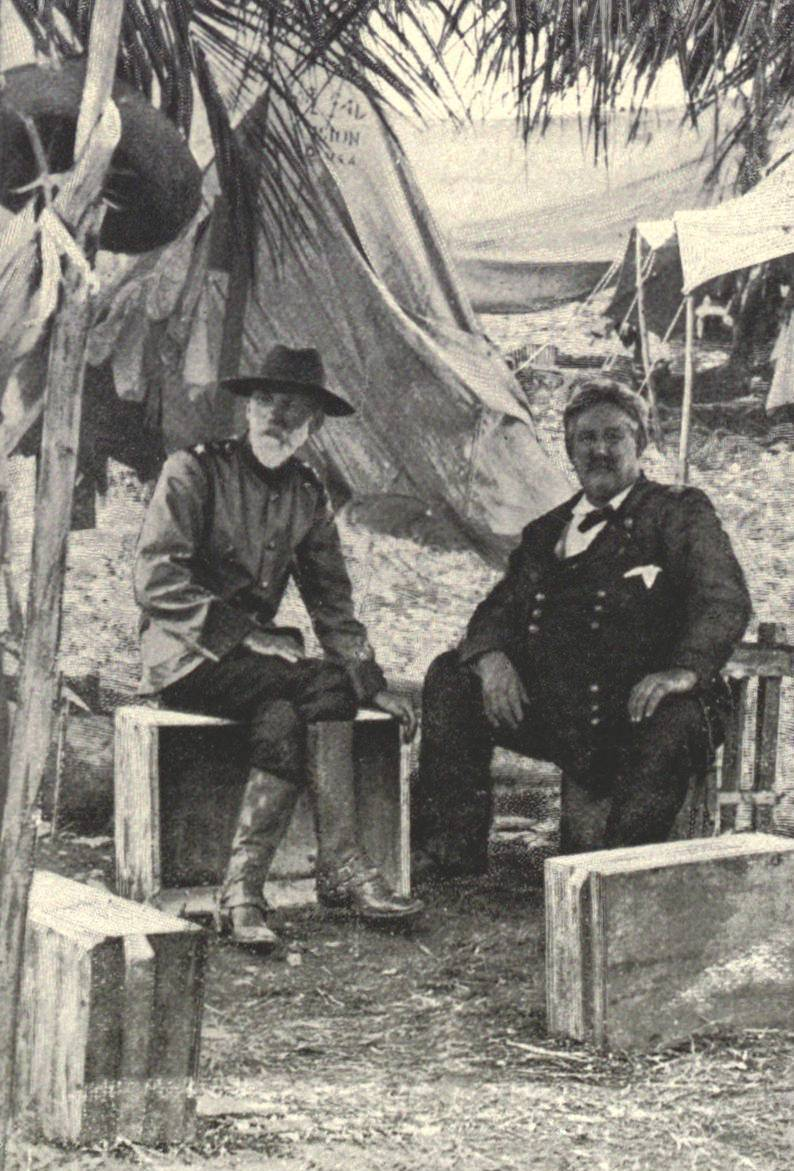 Generals Joseph Wheeler (left) and William Rufus Shafter in Cuba. From p. 386 of Harper's Pictorial History of the War with Spain, Vol. II, published by Harper and Brothers in 1899.